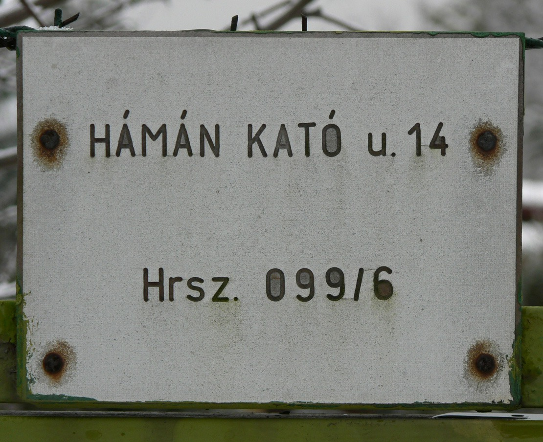 Egy Hámán Katóról elnevezett utca névtáblája, amely túlélte az utcanév 1990-es megszüntetését